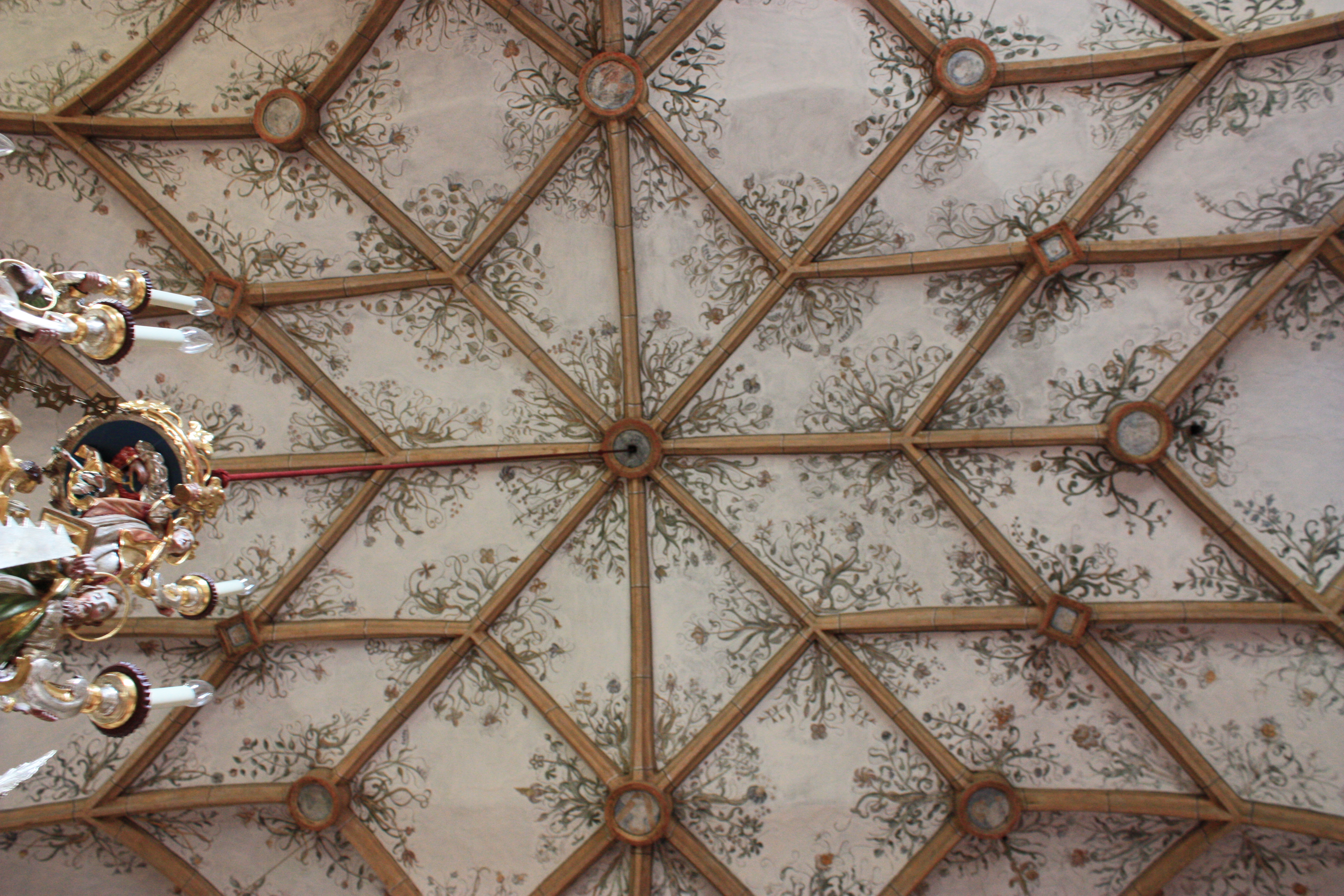 Parish church: Rib vault Locality: Berg im Drautal Community:Berg im Drautal